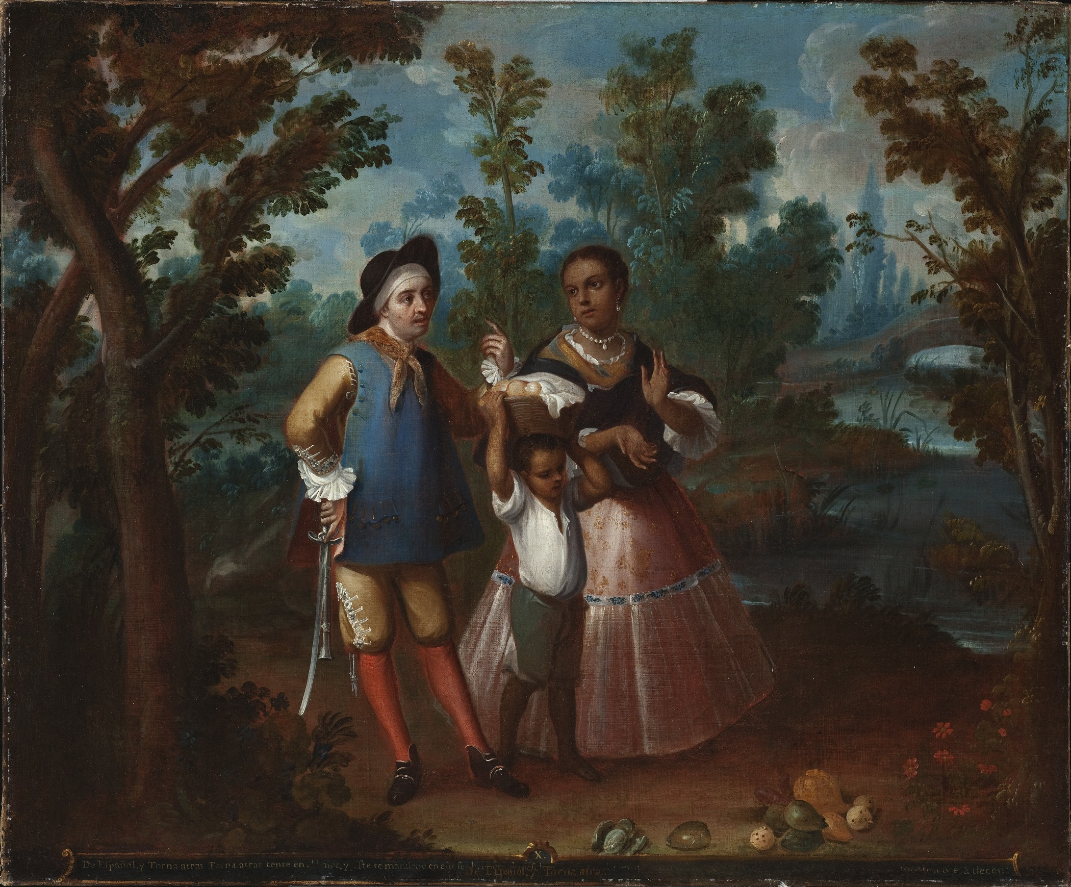 circa 1760 Paintings Oil on canvas Gift of the 2011 Collectors Committee (M.2011.20.3) Latin American Art Currently on public view: Art of the Americas Building, floor 4